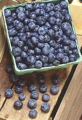 Blueberries - cut from File:Berries_(USDA_ARS).jpg